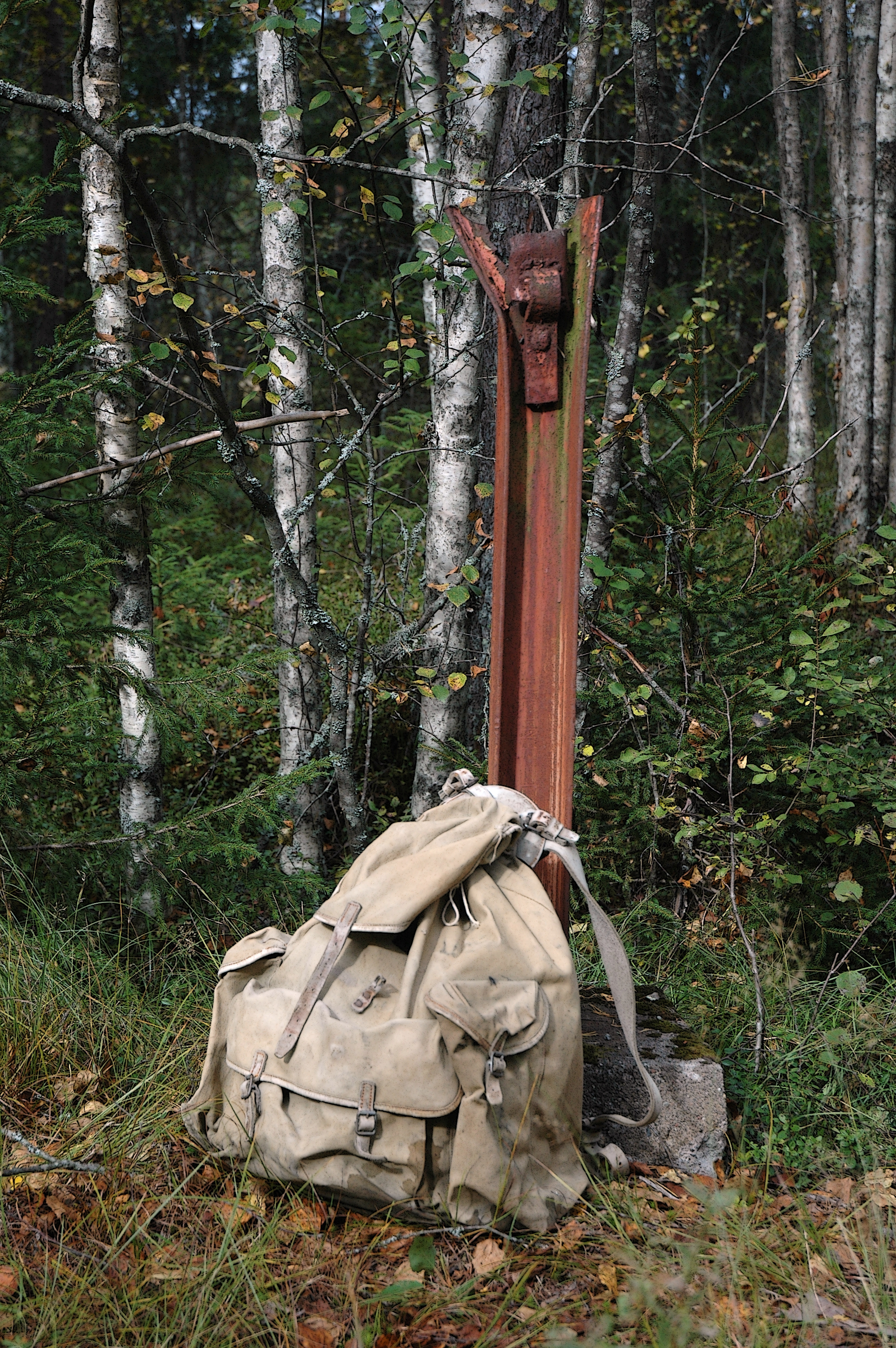 Backpack actually used by refugees fleeing across the border from Norway to Sweden during World War II, next to the border crossing gate.